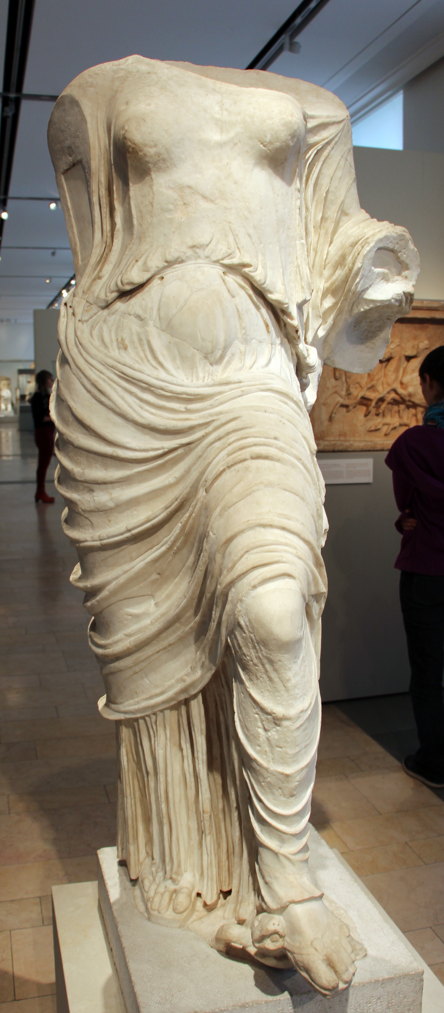 Ancient Greek sculptures in the Antikensammlung Berlin